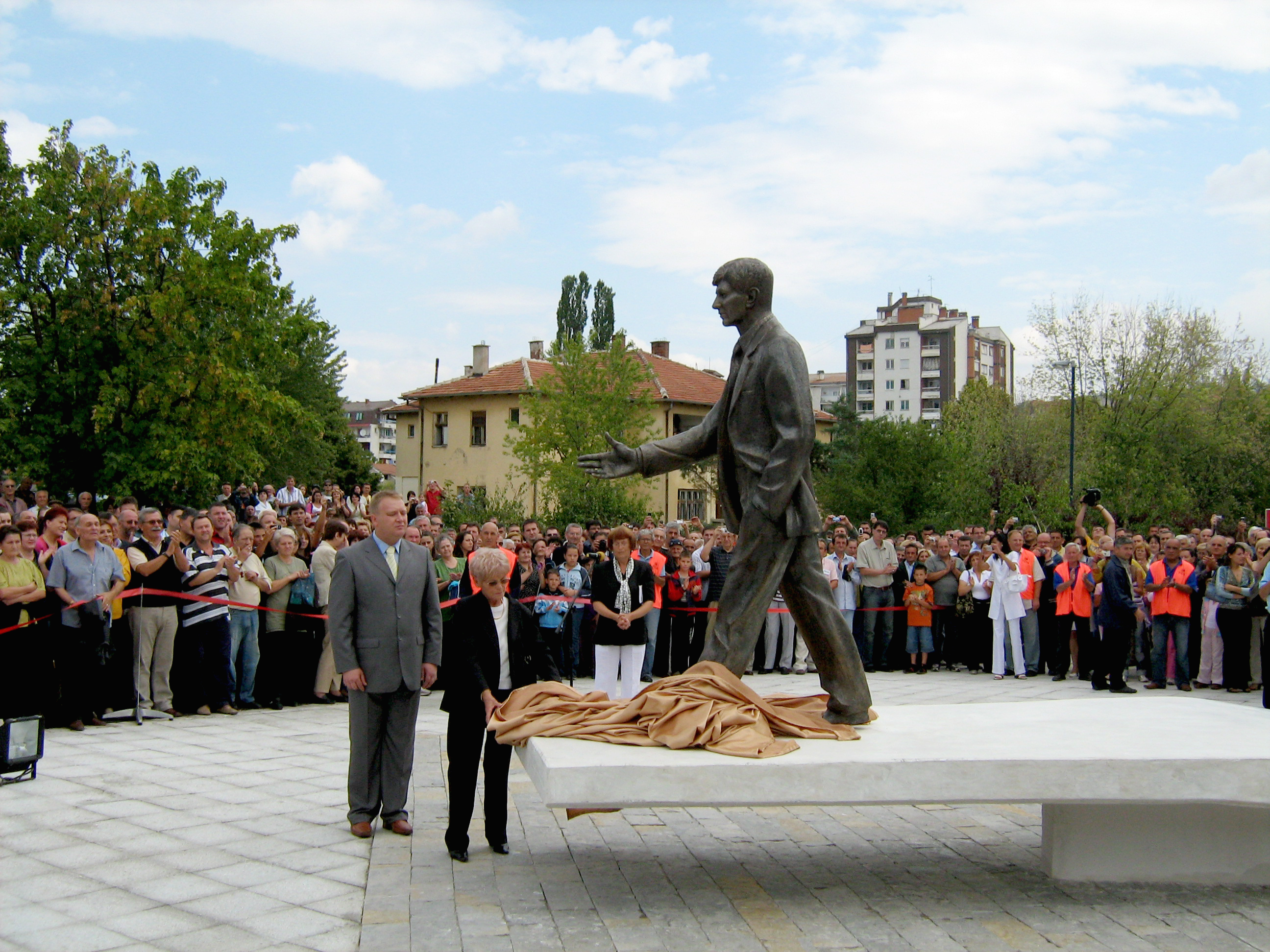 Mila Đinđjić during a ceremony to uncover a monument to her son, killed Serbian President Zoran Đinđjić